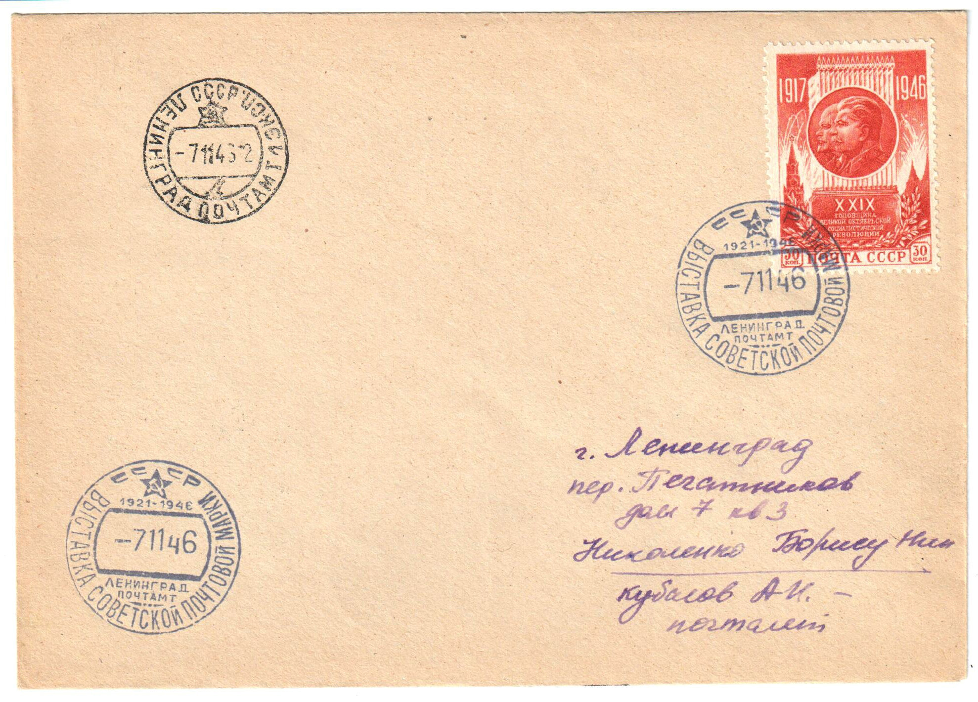 USSR 1946-11-07 domestic cover. Special postmark dedicated to the Soviet Postage Stamp Exhibition held in Leningrad on 7 November 1946 that commemorated the 25th anniversary of the first Soviet stamp and the 29th anniversary of the October Revolution.